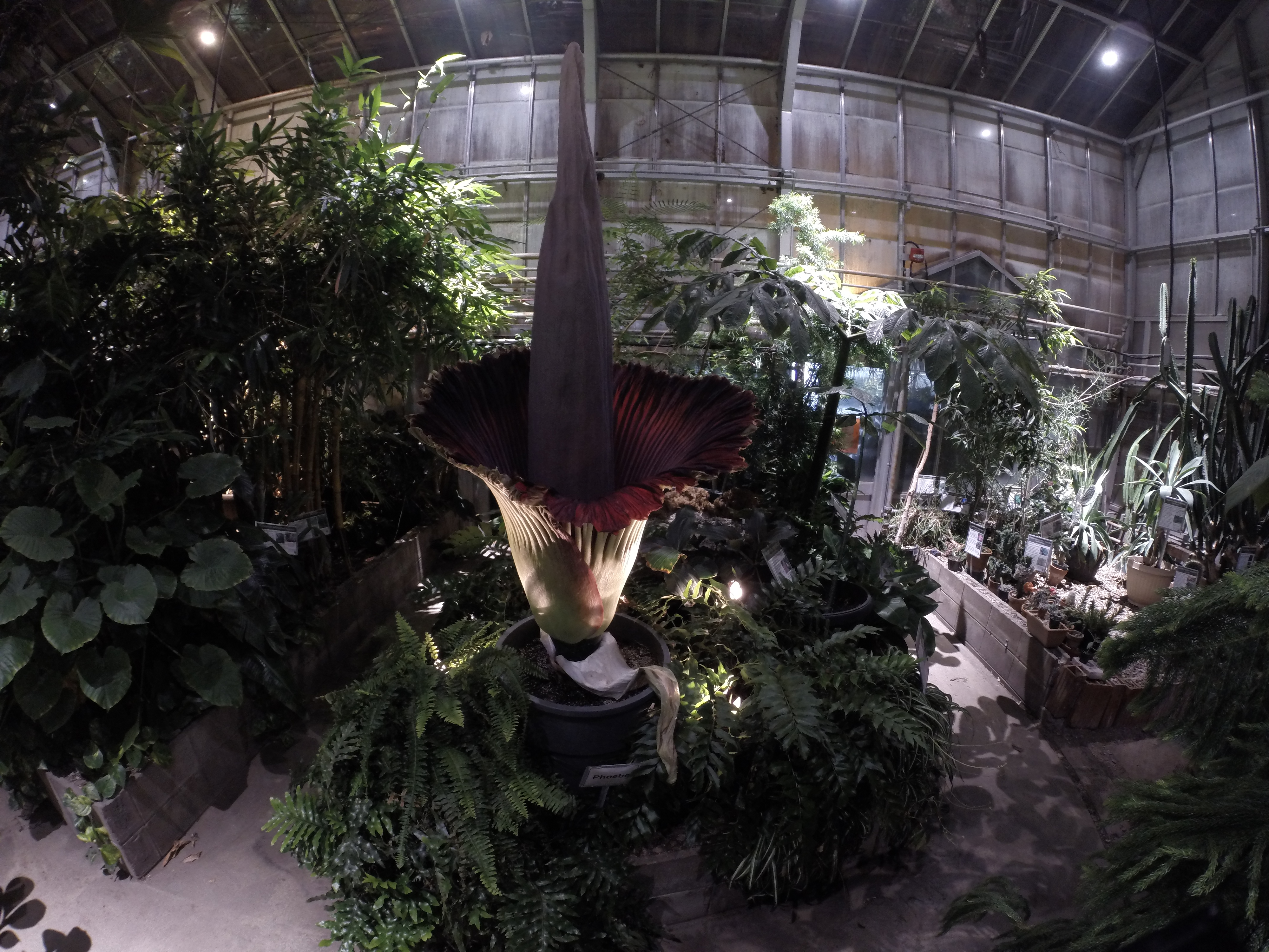 Phoebe, McMaster University, Hamilton, Ontario, Canada, April 20, 2017